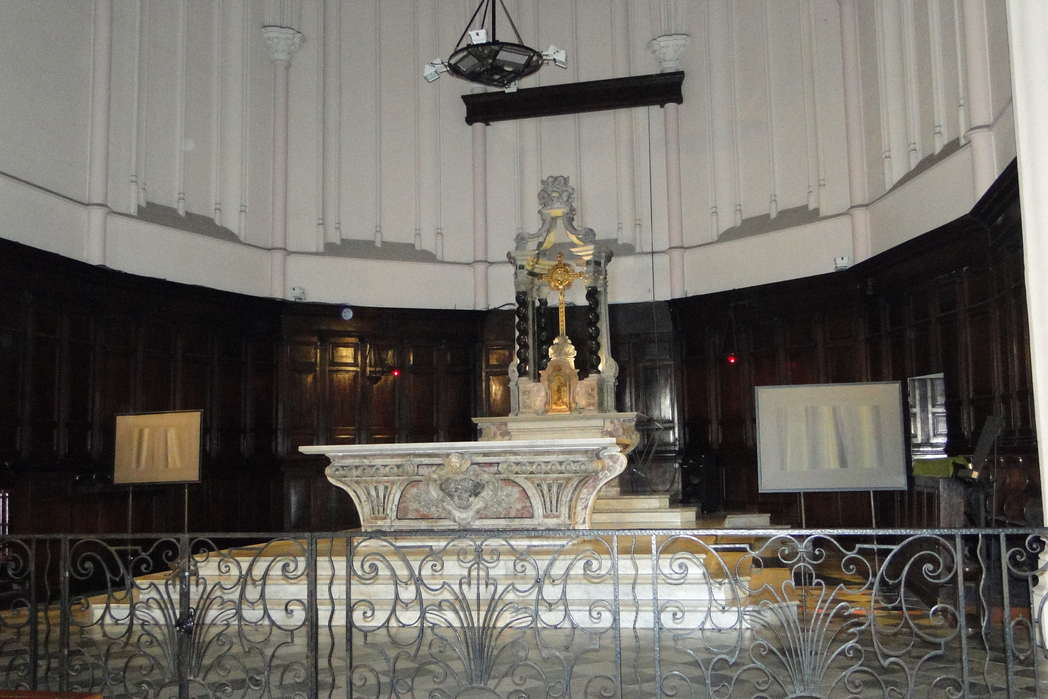 Church of St. Ferreol (Marseille) - High altar